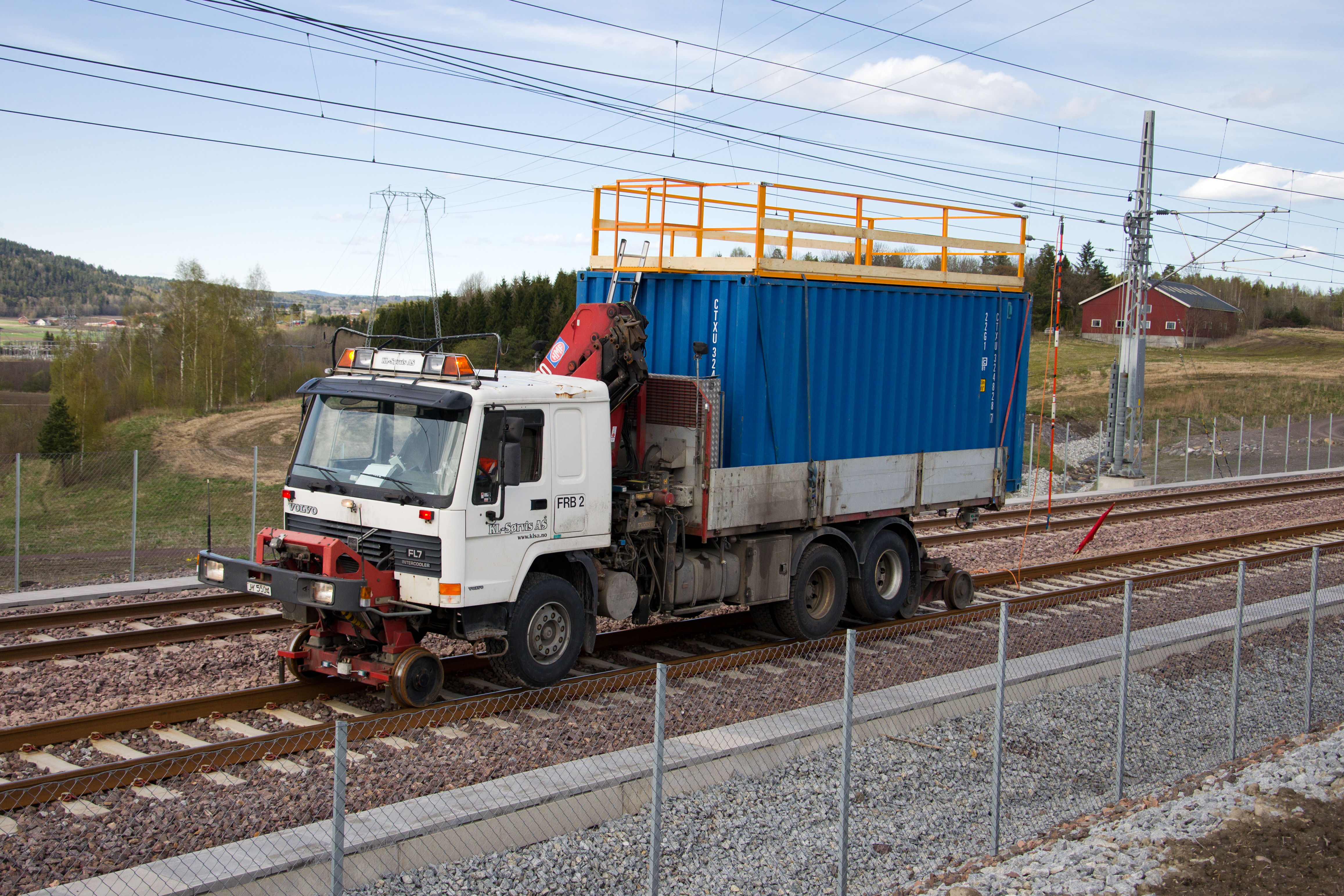 Road-rail vehicle, Overhead line vehicle, Two-way vehicle. 1996 Volvo FL7, diesel 169KW / 230HP. Photographed on the Vestfold Line in Tønsberg, Norway.